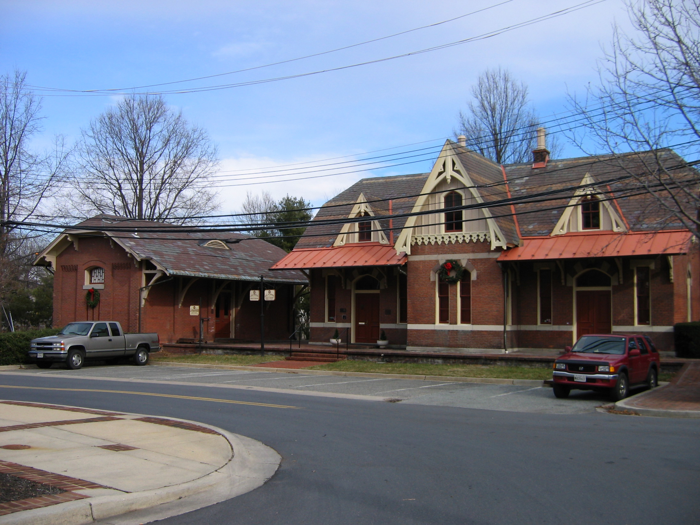 View of former Baltimore & Ohio Railroad station in Rockville, Maryland. The building was relocated away from the railroad tracks in 1981.